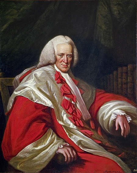 Henry Home, Lord Kames by David Martin